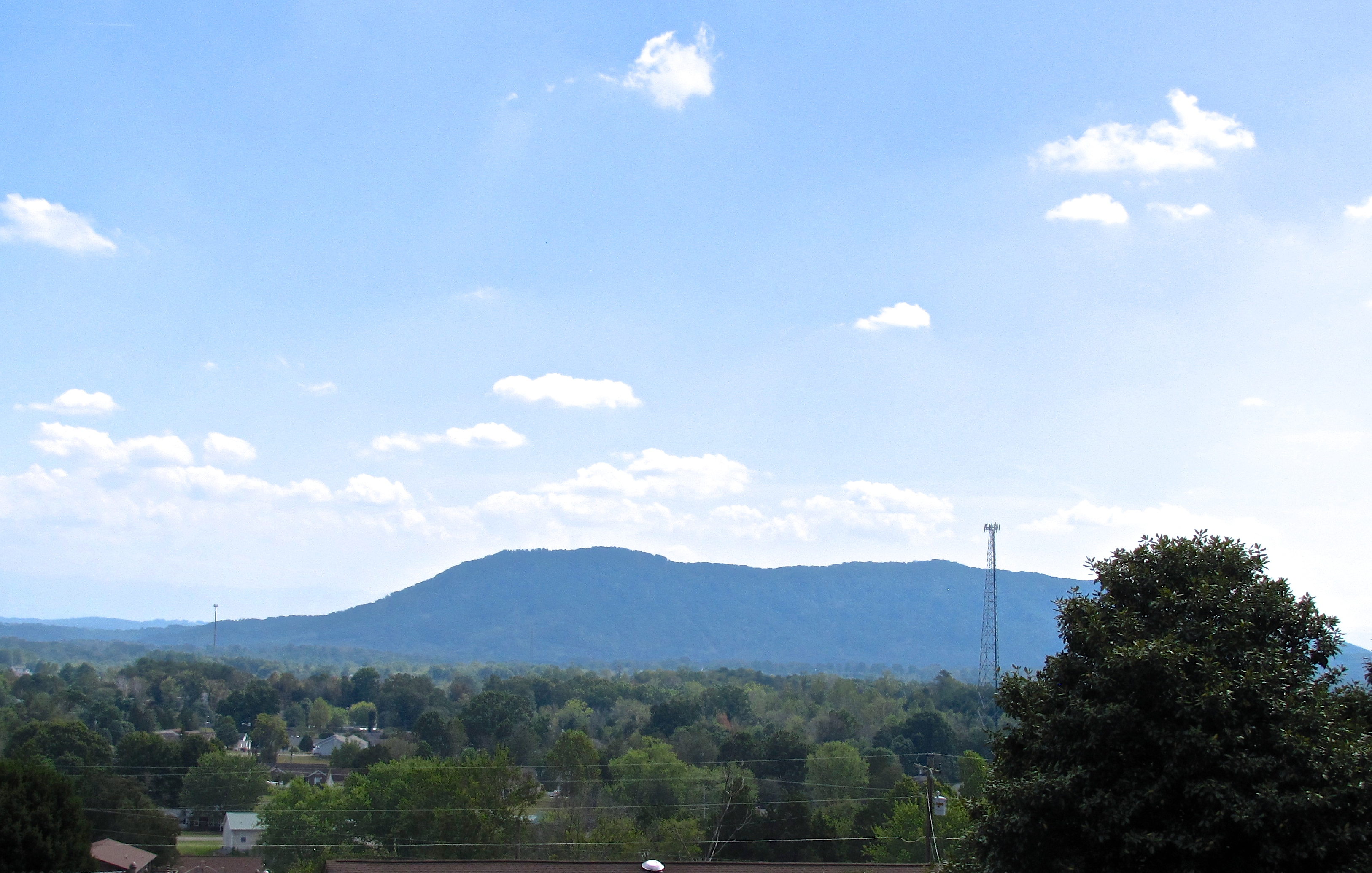 View across Plainview, Tennessee, United States, with House Mountain rising in the distance.